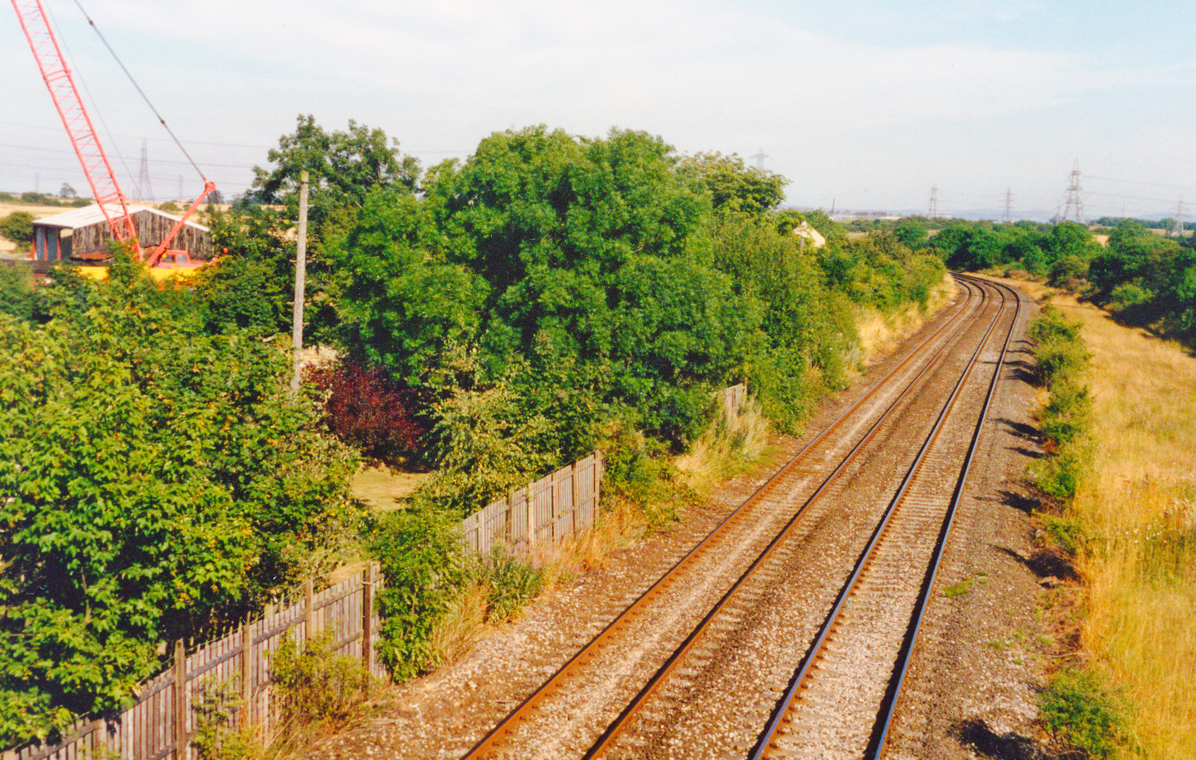 Site of former Redmarshall station, 1995. View SE, towards Stockton etc.: ex-NER Shildon etc. and Ferryhill - Stockton etc. secondary main line. The line had been electrified (Shildon - Newport Yard) 1916-25, and still remains open for freight, but the station was closed and the passenger service (Ferryhill - Stockton) withdrawn from 31/3/52